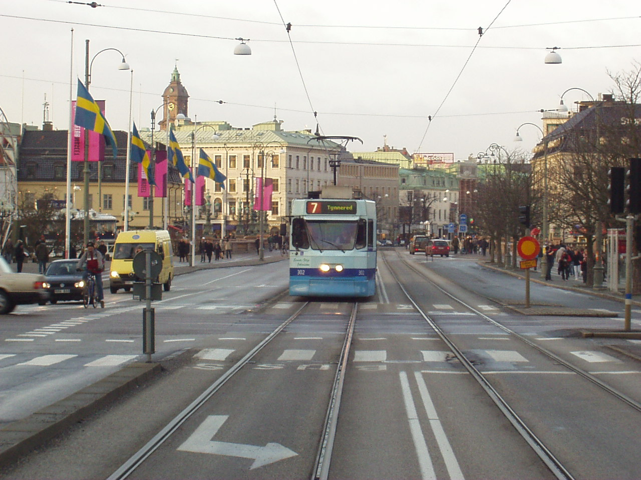 Tram heading up Kungsportsavenyn in Gothenburg, Sweden. Author: Oskar Anlend